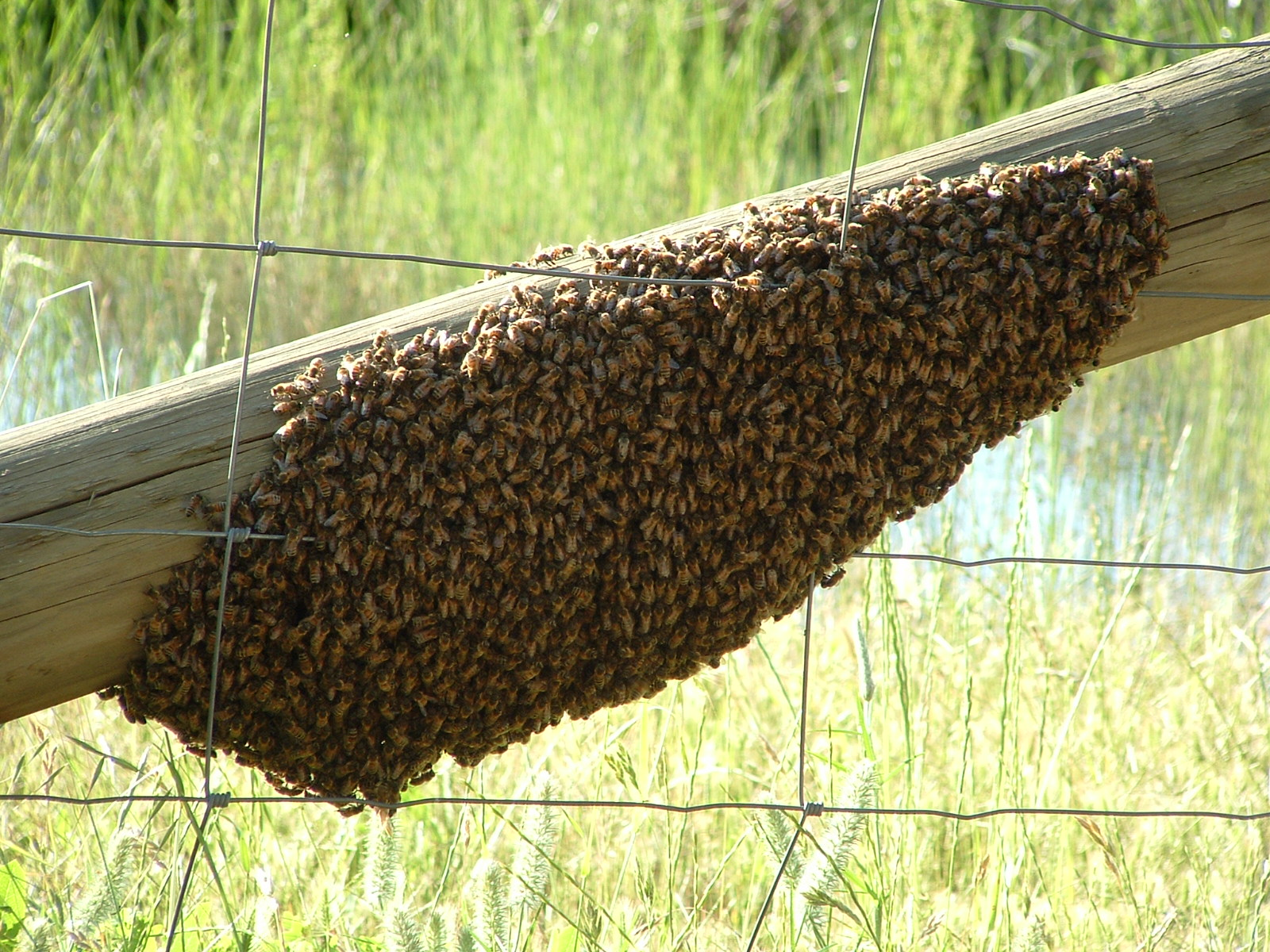 A swarm of Western honey bees or European honey bees (Apis mellifera).